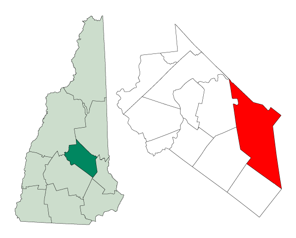 Map of a municipality in Belknap County, New Hampshire